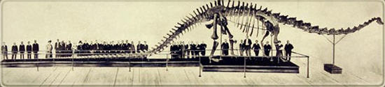 Carnegie Museum of Natural History, Kongress 1907